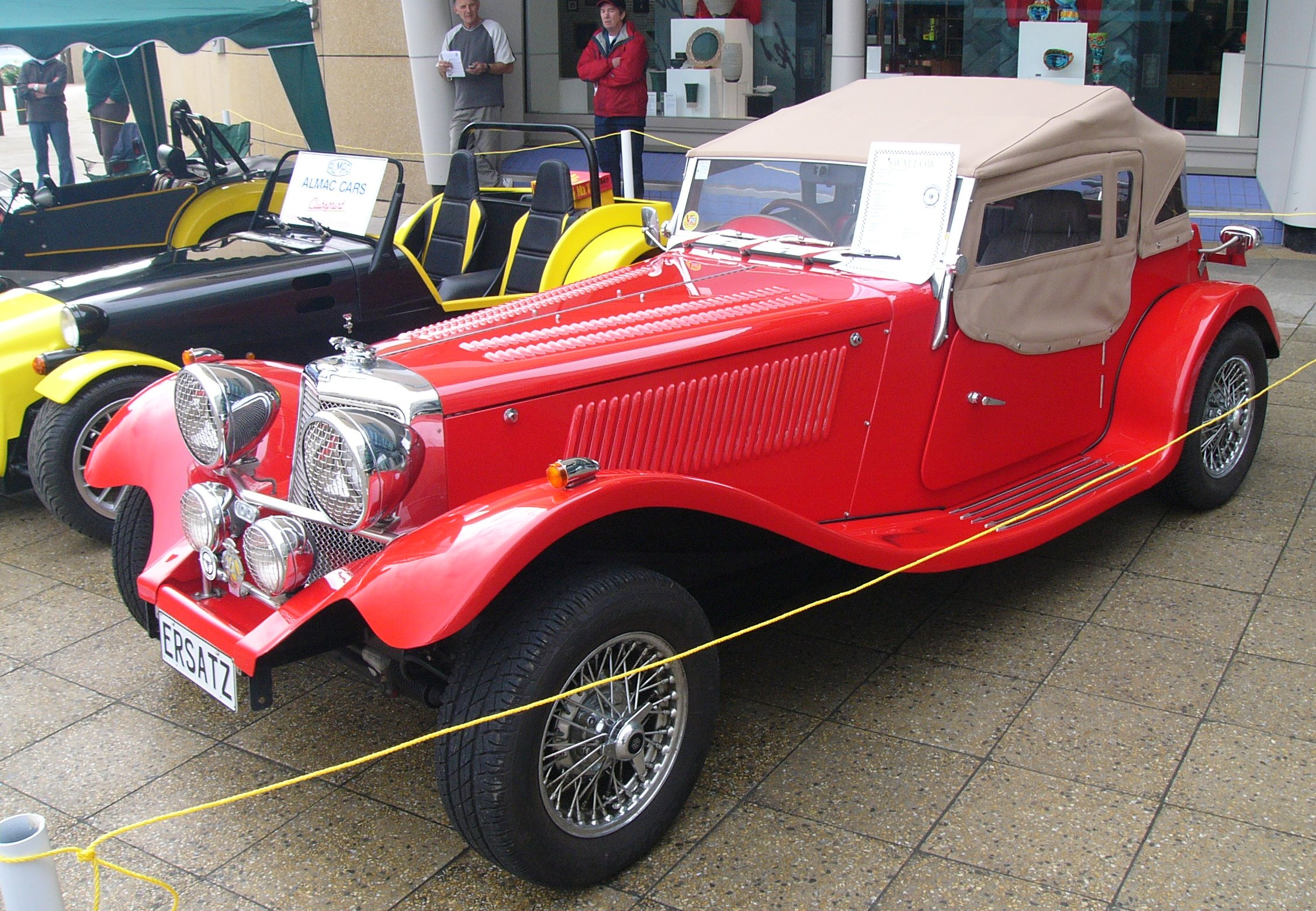 Photos taken at TePapa, Museum of New Zealand, Wellington left: Almac right: unidentified replica of SS 100